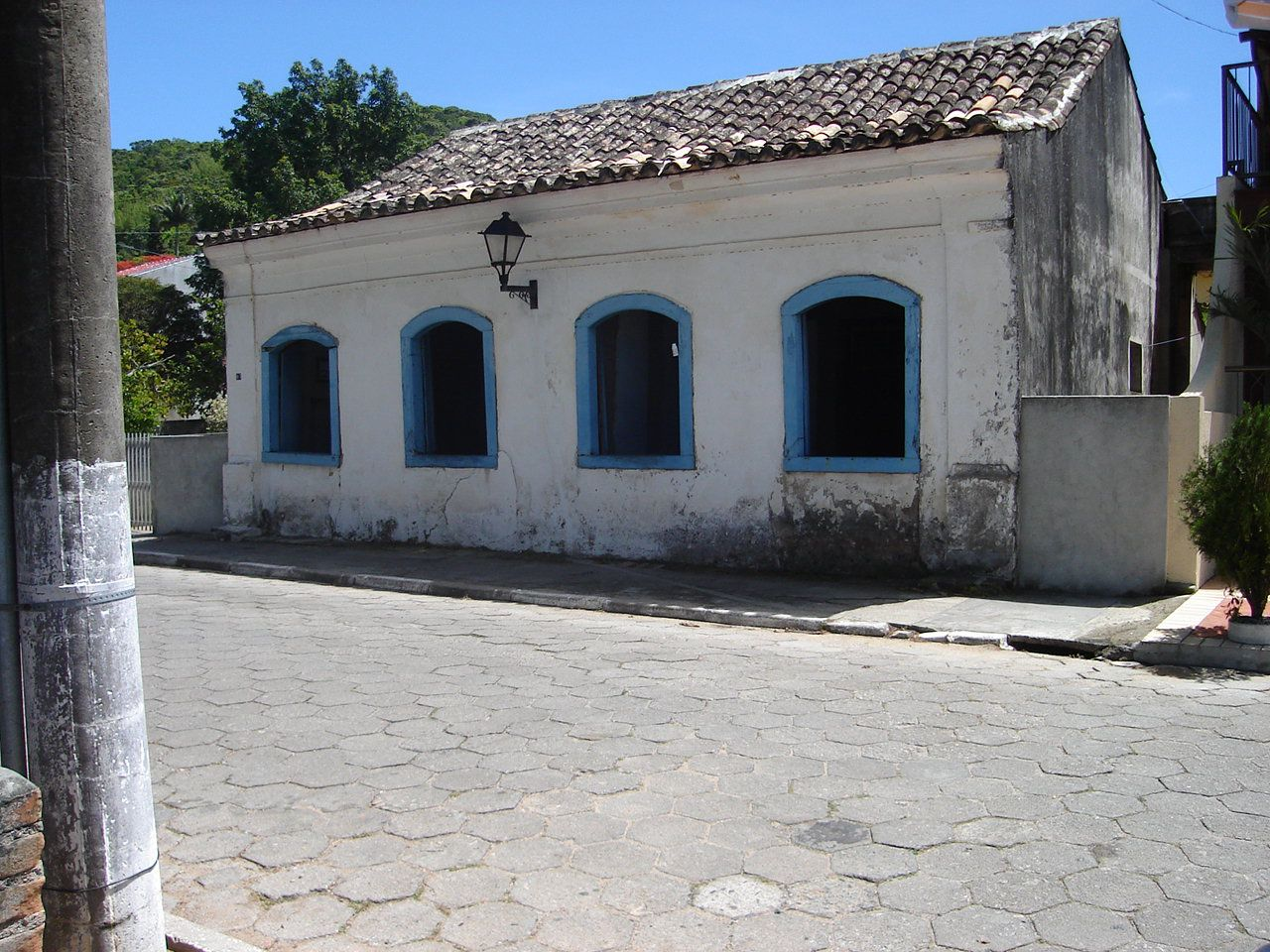 House in Santo Antônio de Lisboa, Florianópolis, Brazil.